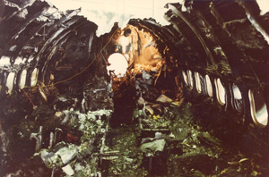 Fire damage in the cabin of DC-9 C-FTLU (Air Canada Flight 797).